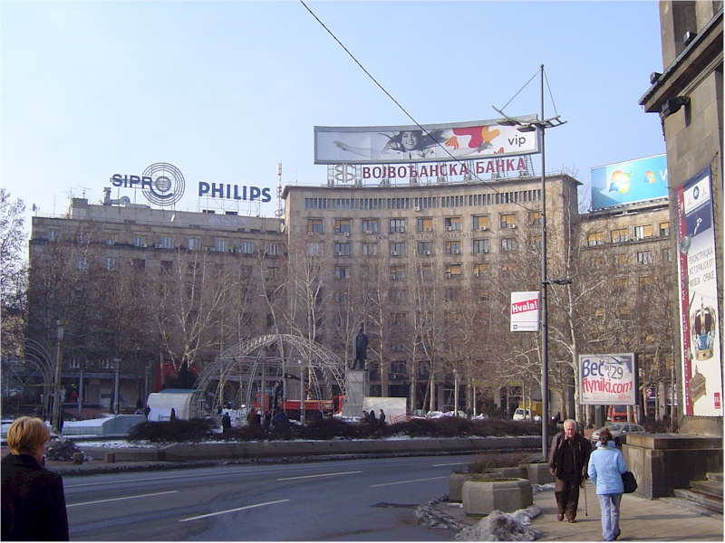 Belgrade's Nikola Pašić Square, in winter.